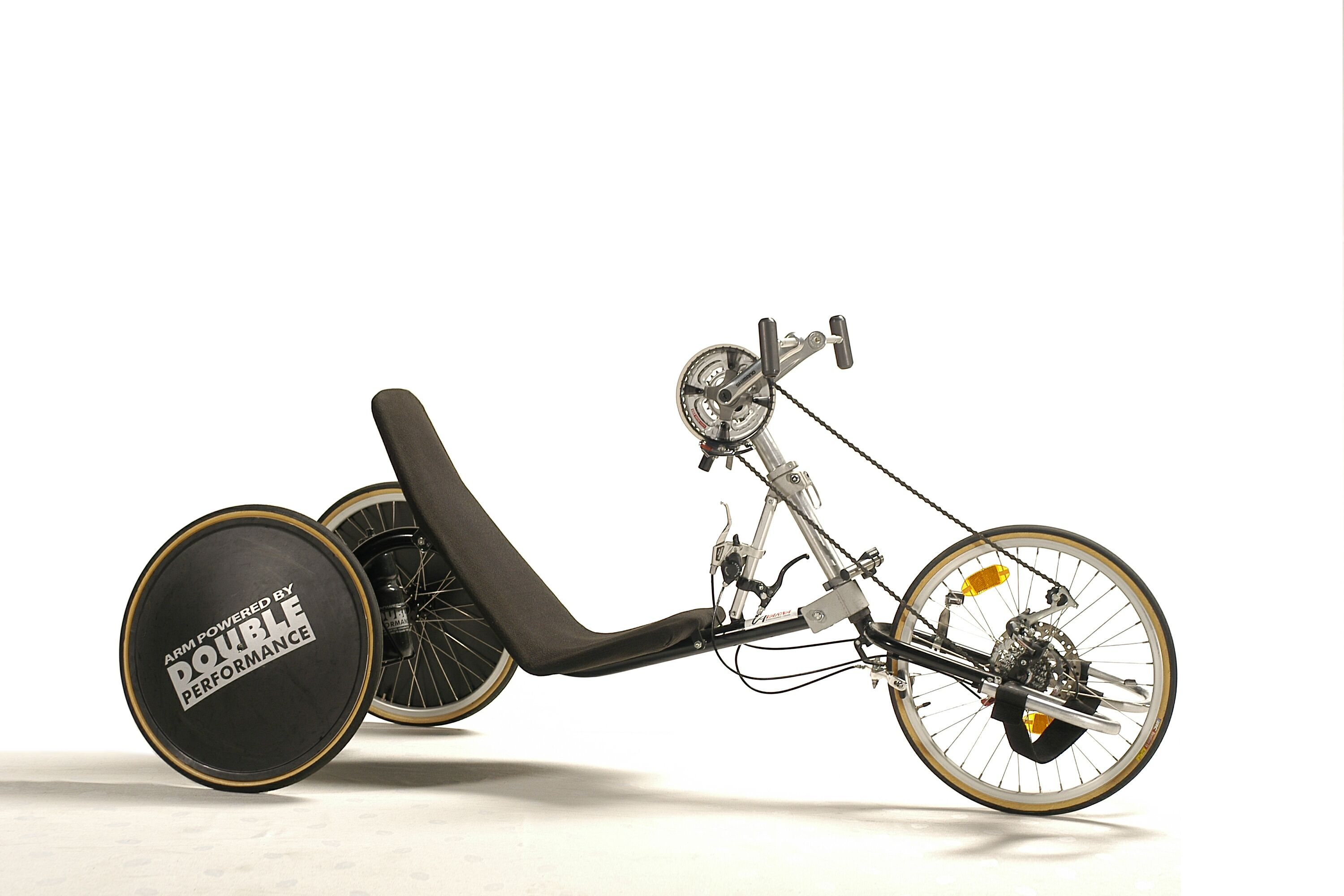 Varna hand bike, a full frame handbike